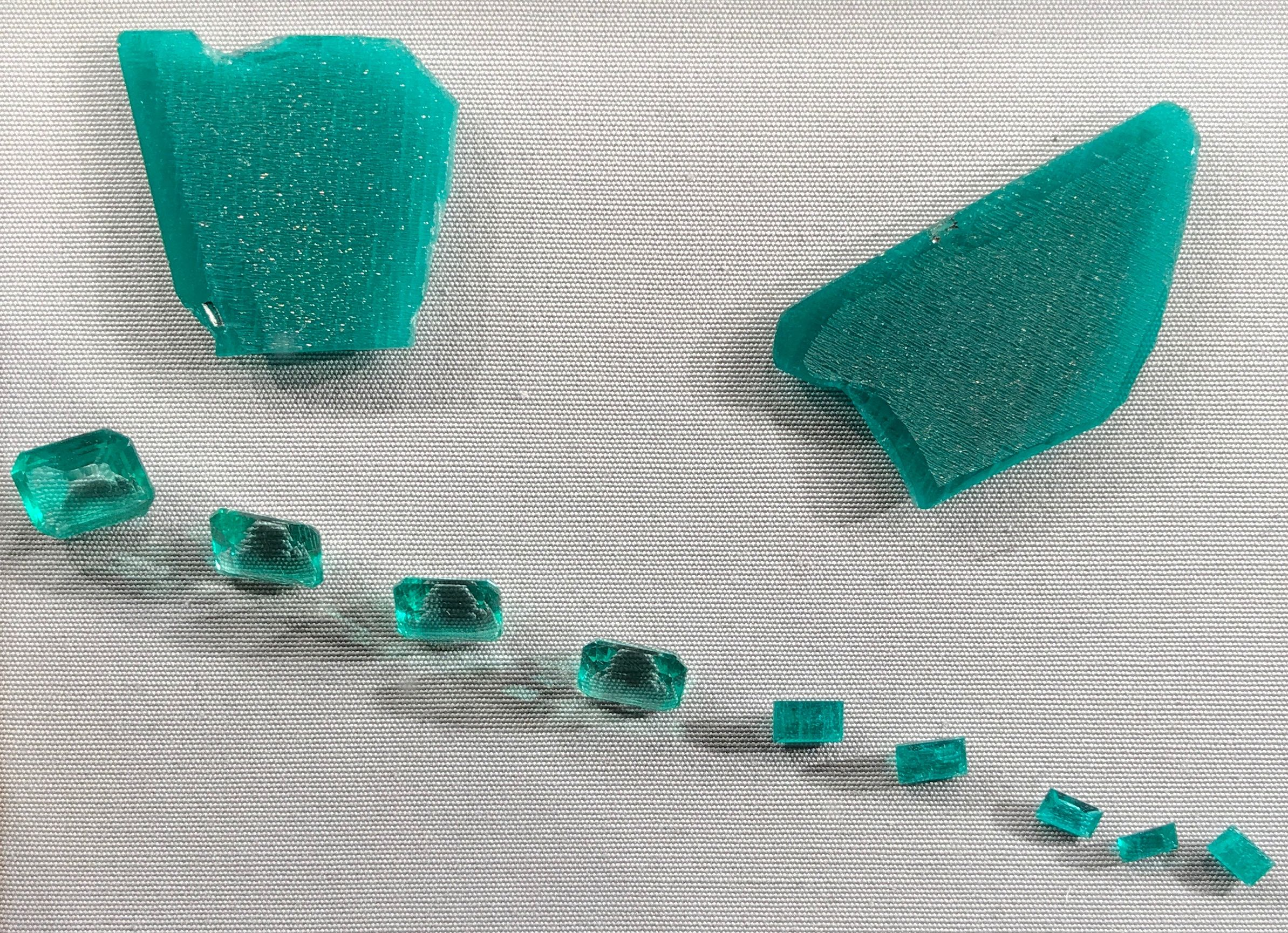 synthetic emerald hydrothermal synthesis invented by J. Lechleitner Exhibit of the Museum of Natural History in Vienna